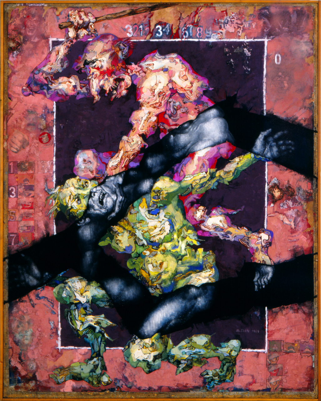 Zbyšek Sion, Situation (How to make behave with the stick), 1969